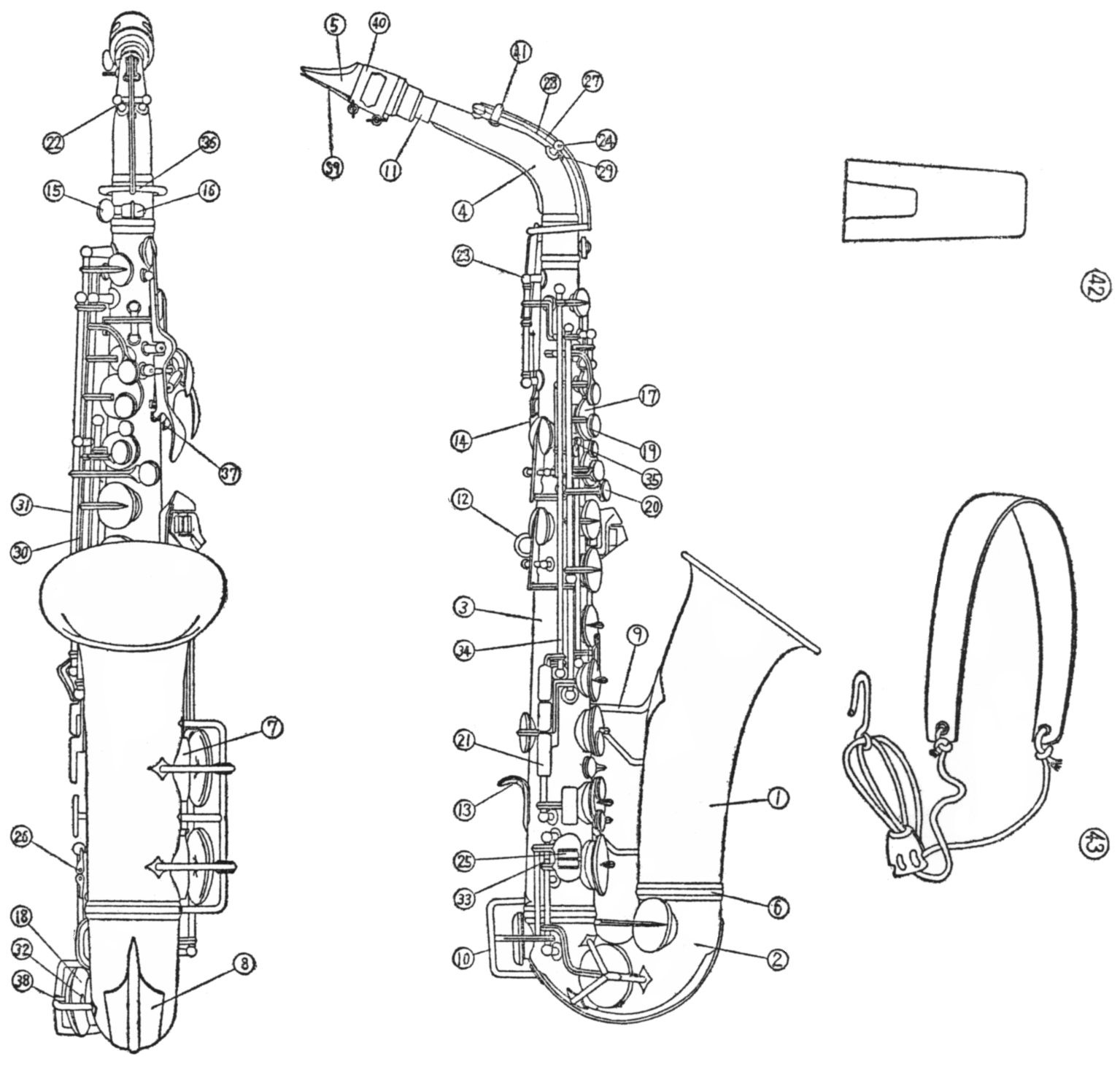 graphic of Saxophone.